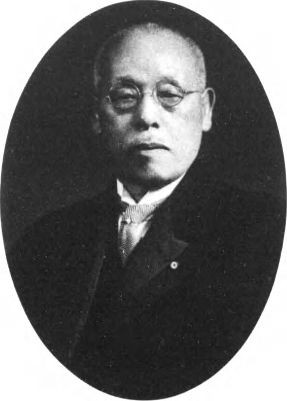 Kanematsu Hiroshi